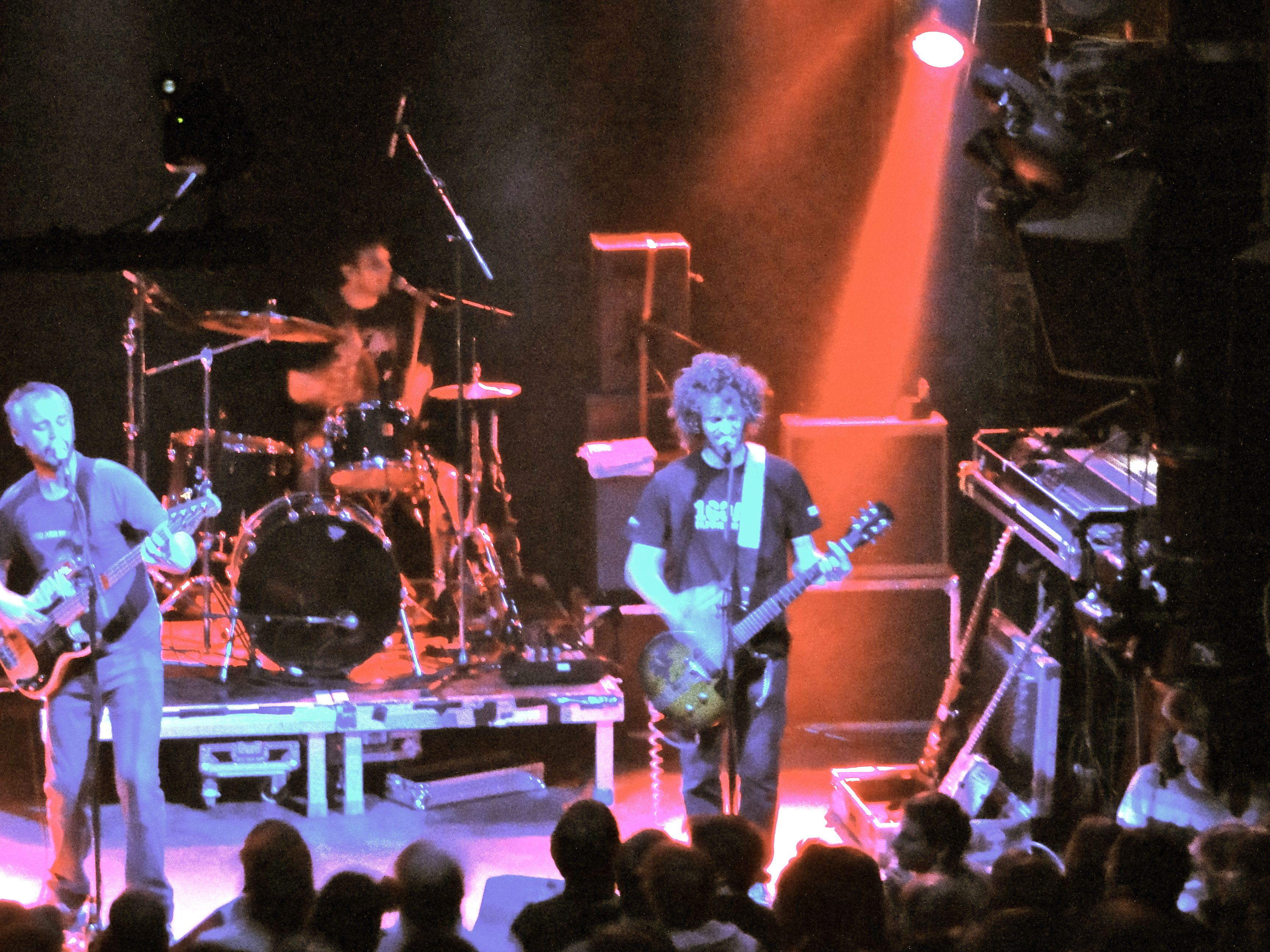 State Radio, performing live at "Knust", Hamburg, 2010